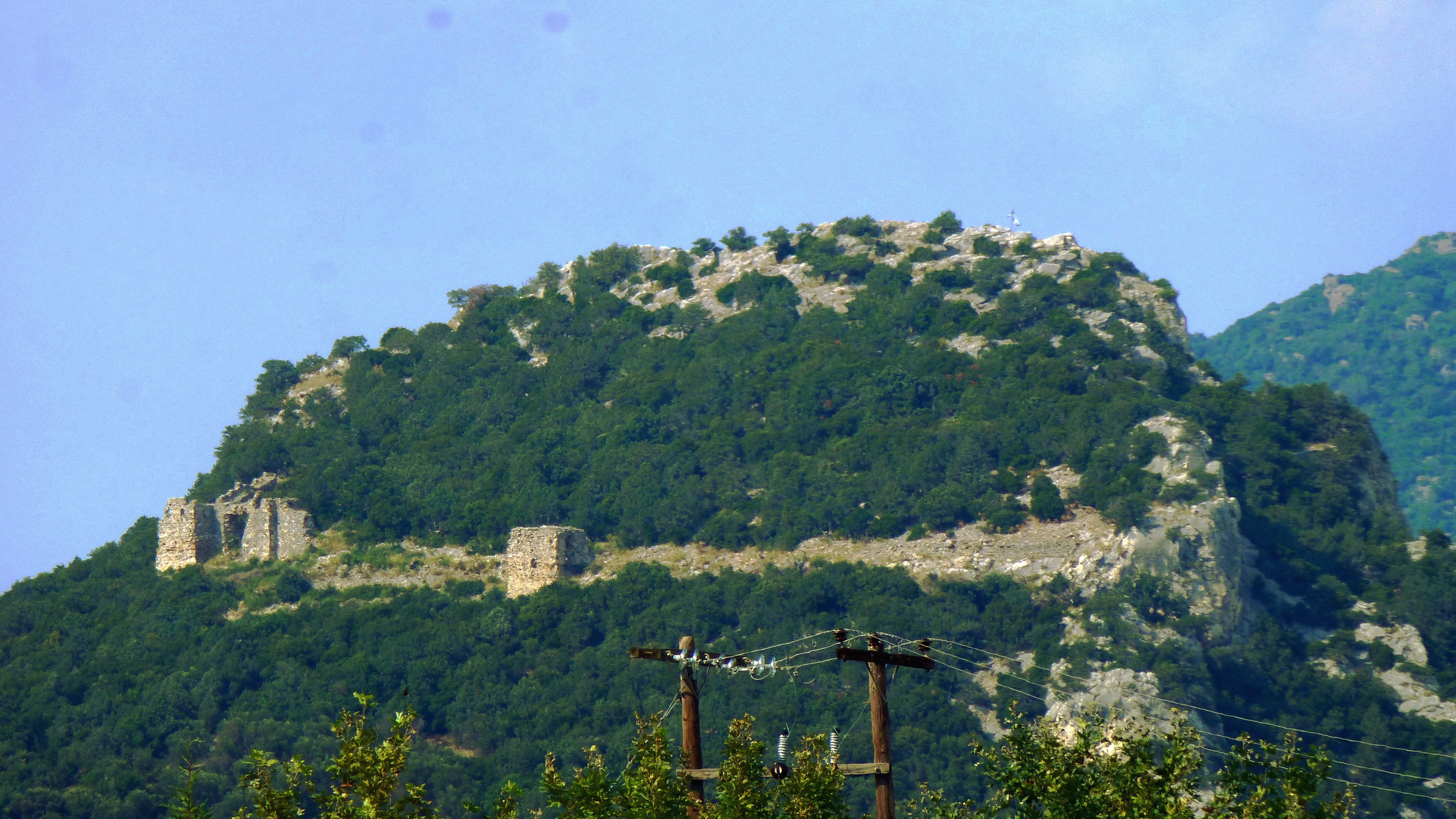 Castle Avants, Alexandroupolis